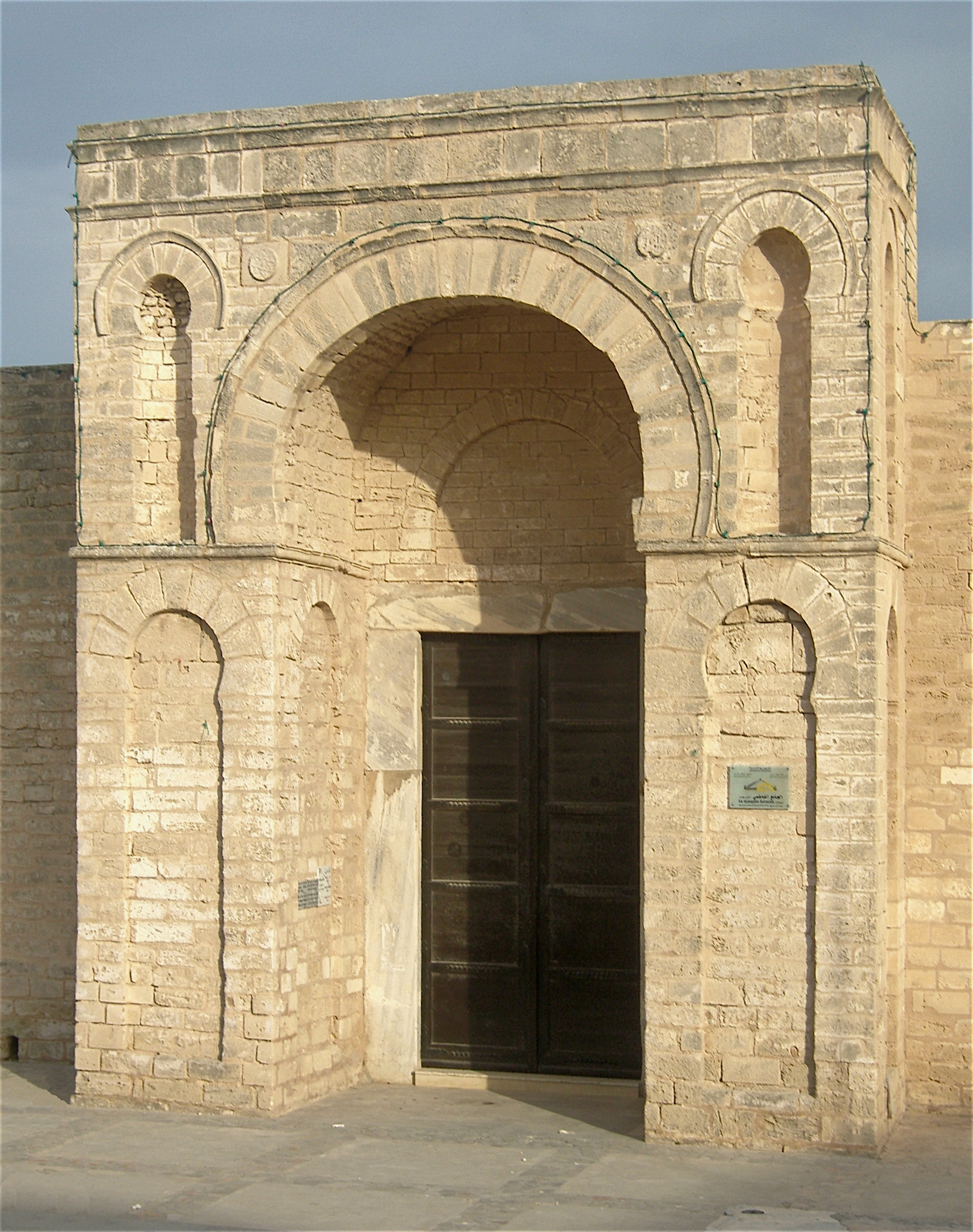 Gate of the Great Mosqu El-Mahdi in Mahdia